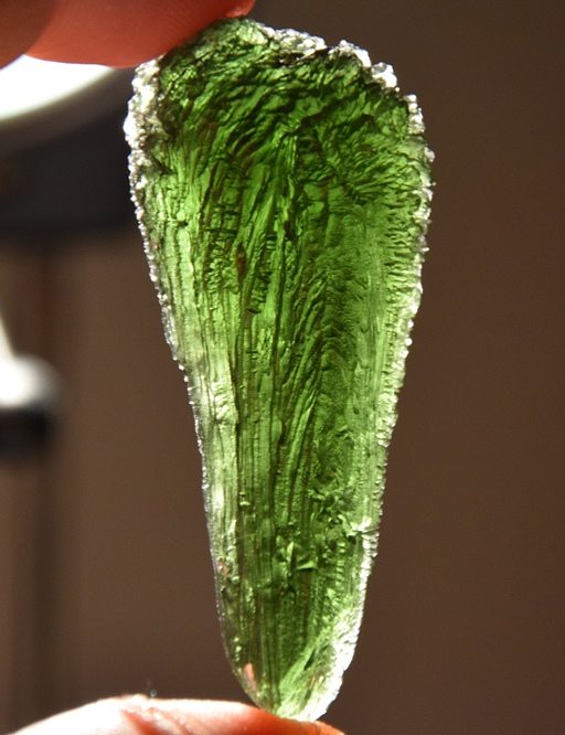 Moldavite Czech Republic - Chlum Photo: Onohej Zlatove - Moldavite Association